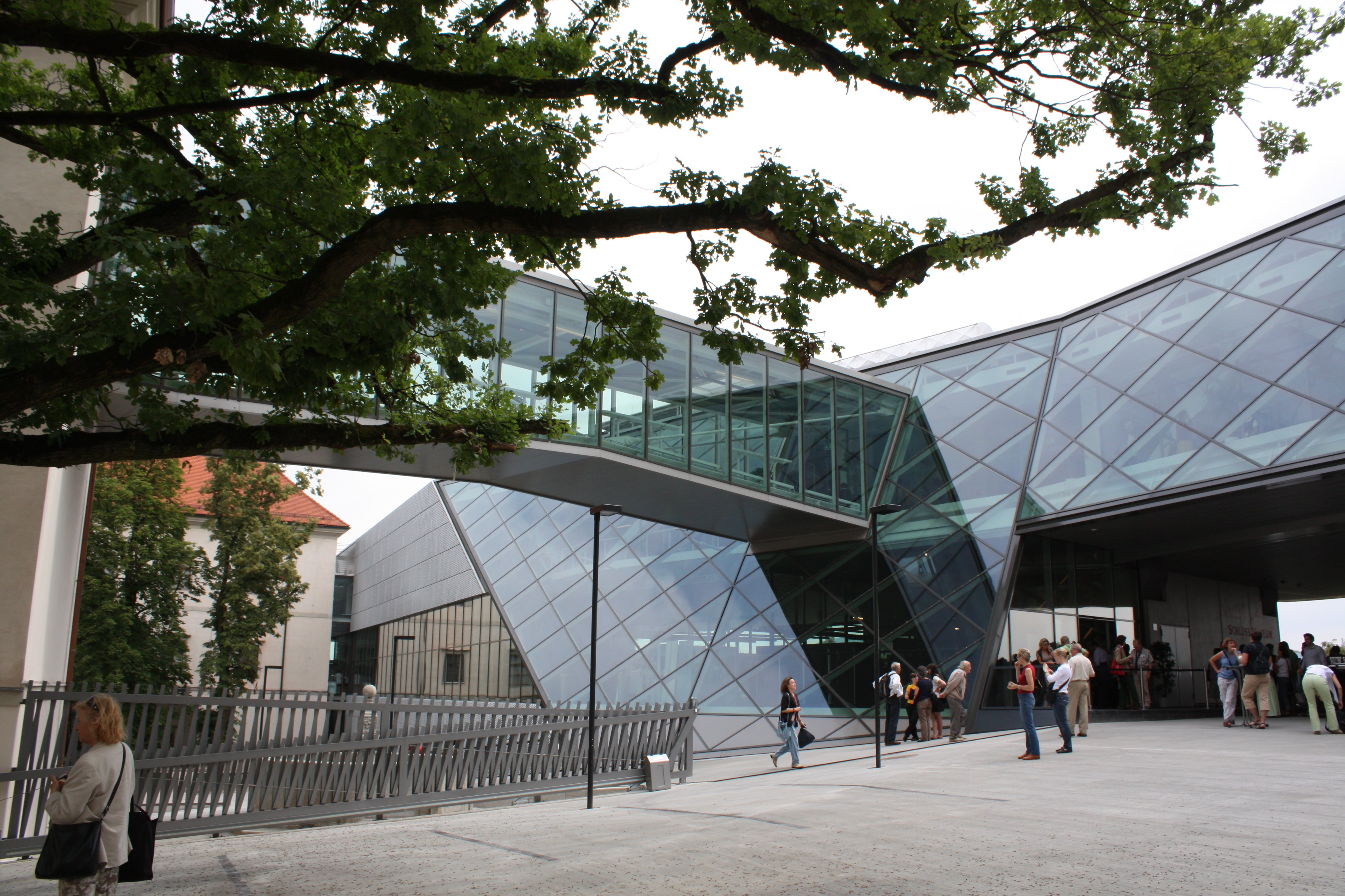 Linz castle museum, new southern wing